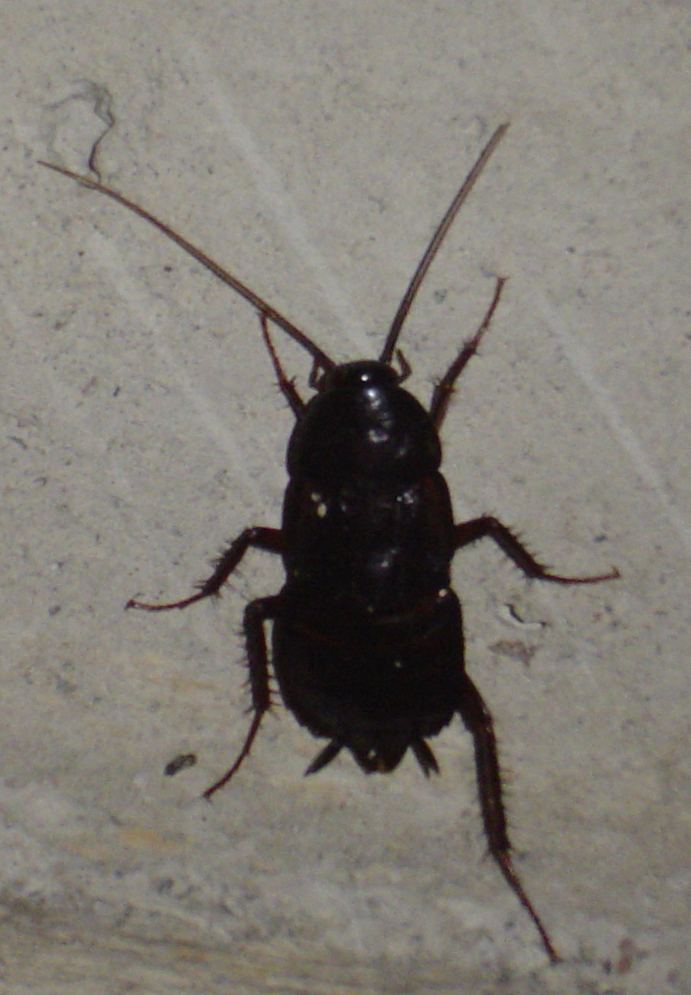 image of a Blatta orientalis adult stage.